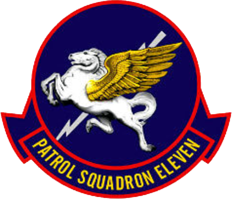 Insignia of the U.S. Navy Patrol Squadron 11 (VP-11) "Fighting Tigers", approved on 15 May 1952.